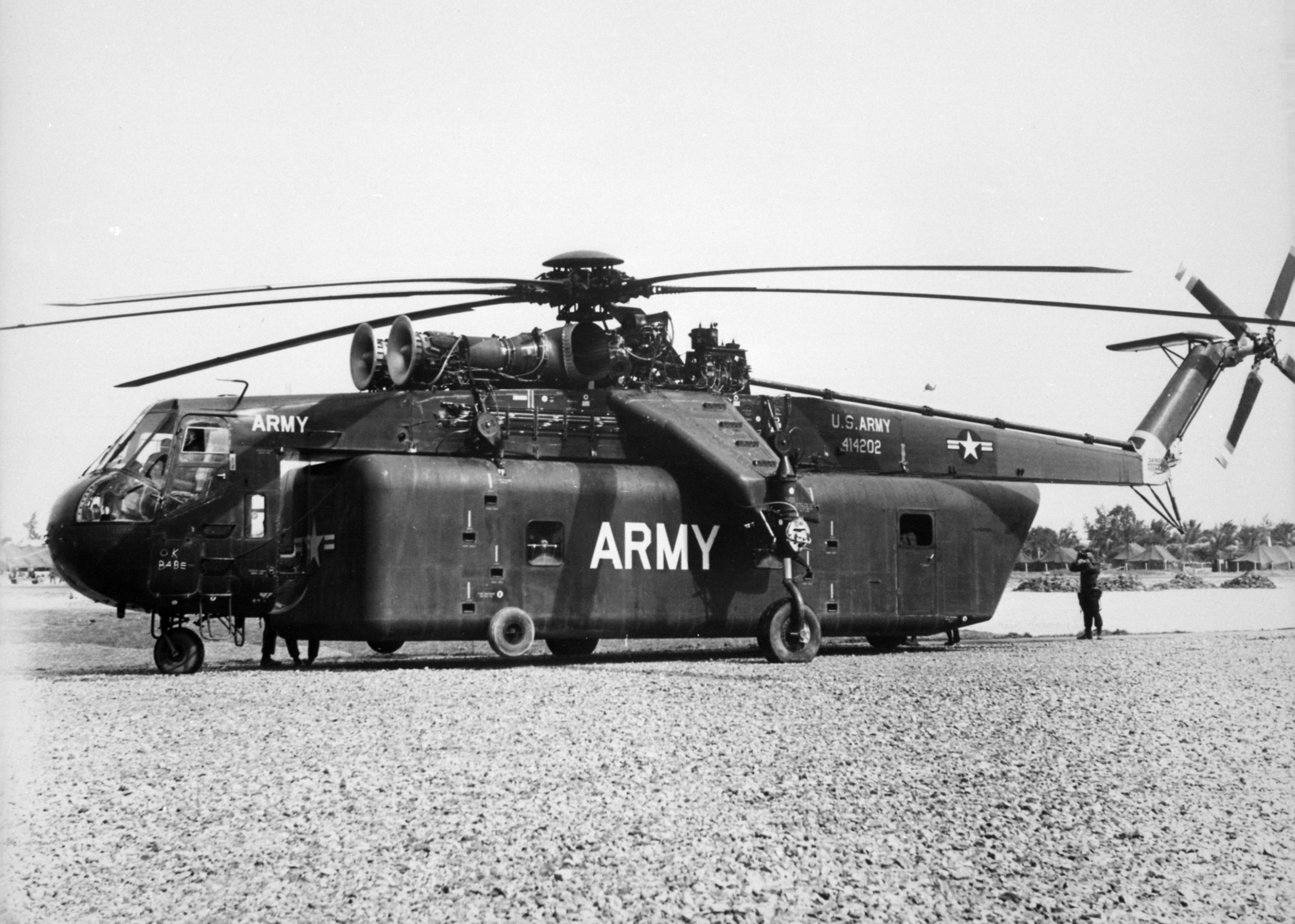 A U.S. Army Sikorsky YCH-54A Tarhe (s/n 64-14202) helicopter in the 1960s. This helicopter was the first of six pre-production aircraft and was written off in Vietnam on 9 August 1966.